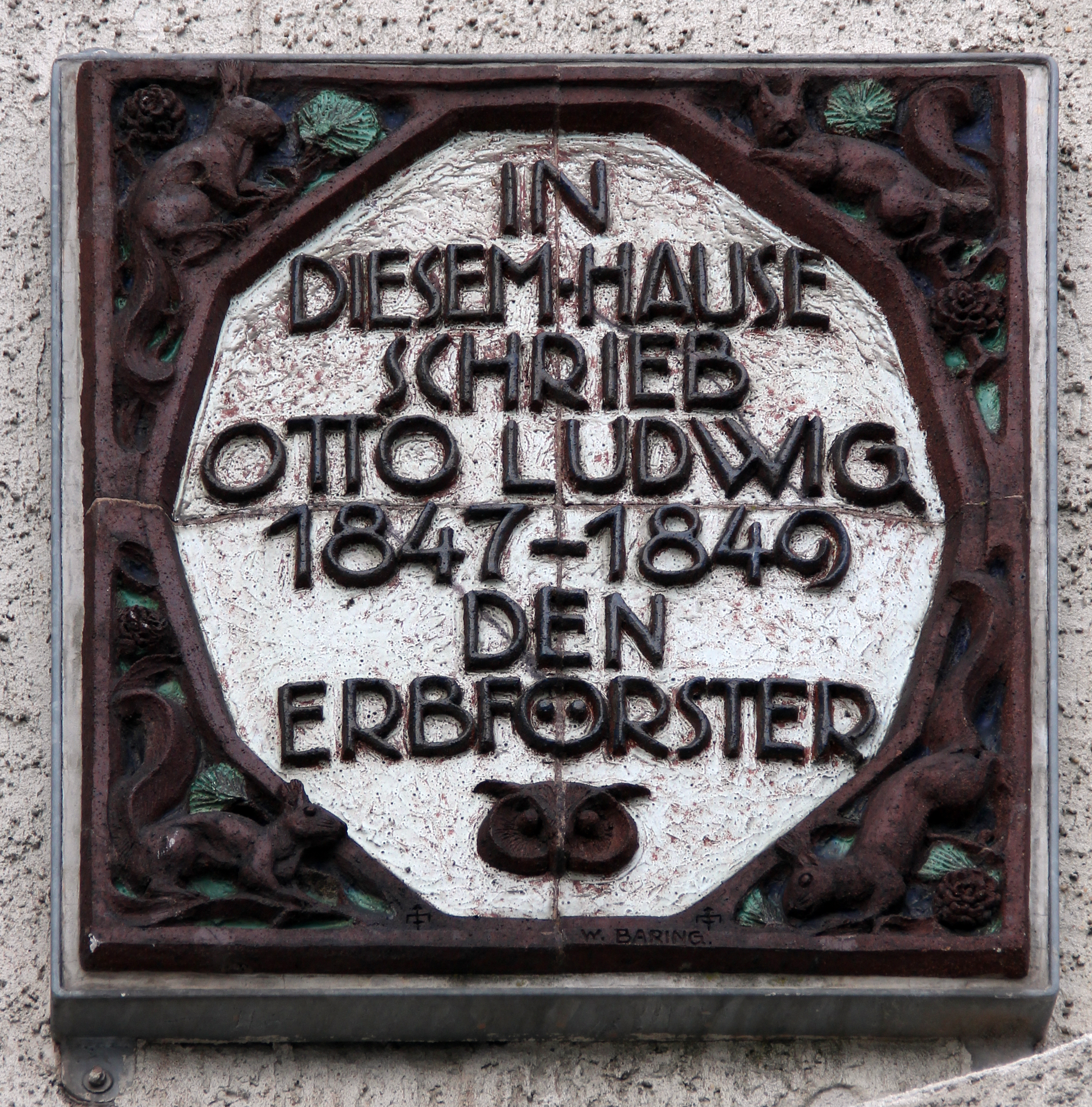 Memorial plaque, Otto Ludwig, Leipziger Straße, Meißen, Germany